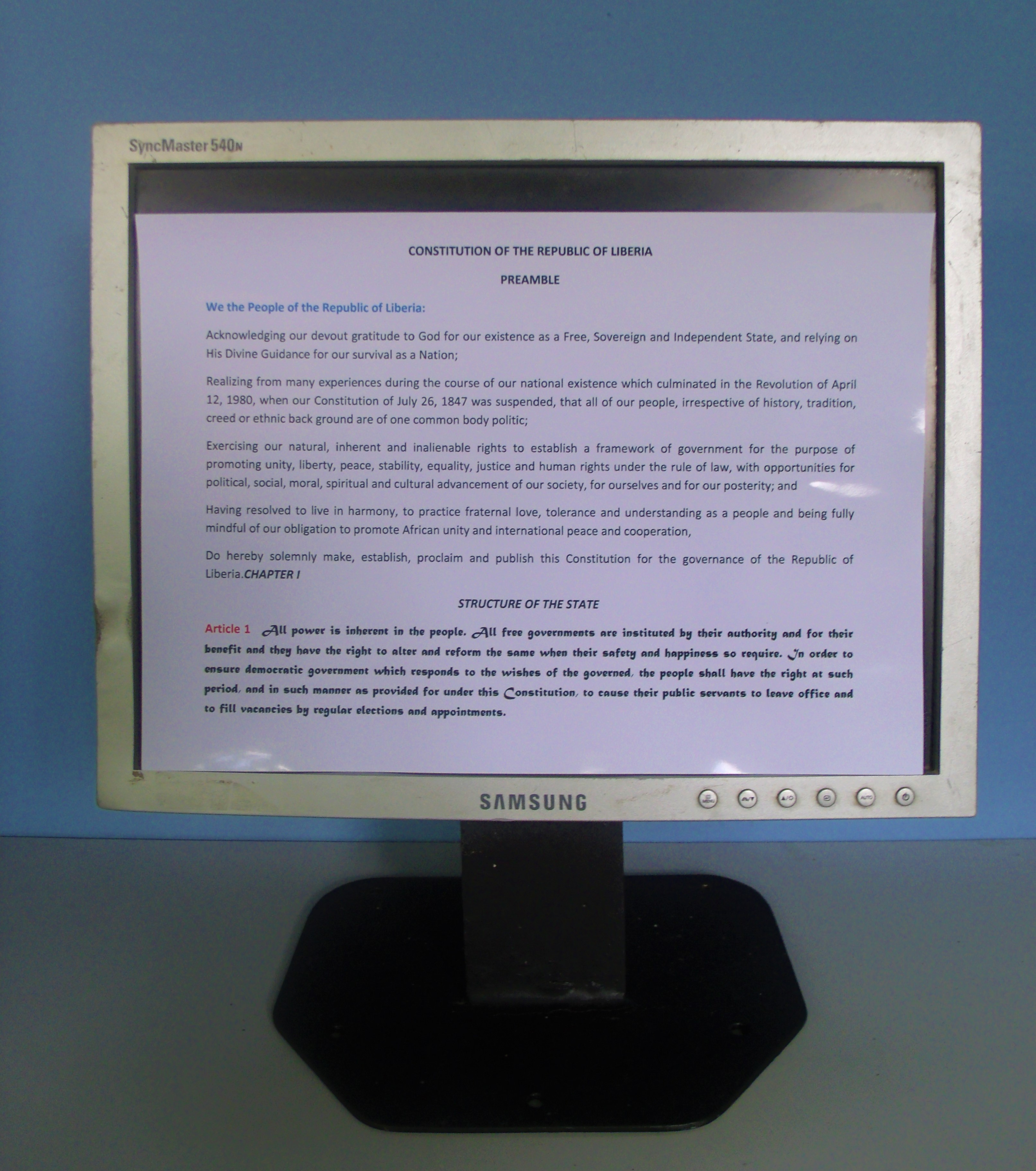 Constitution of Liberia.